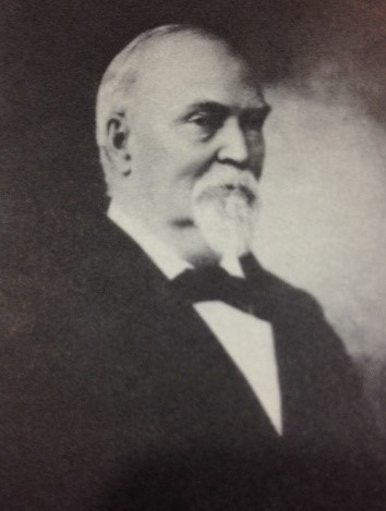 Napoleon Hill (1830-1909) was a successful and wealthy businessman in 19th Century Memphis, Tennessee.